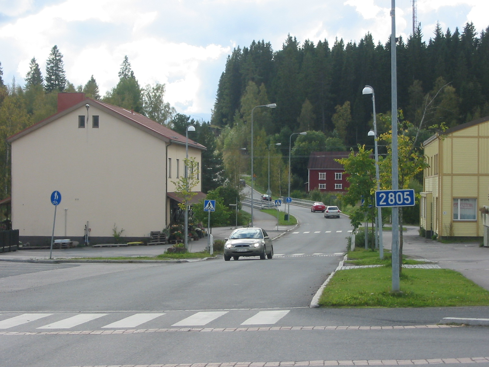 National road 2805 in Ypäjä, Finland